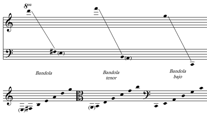 Tone range of the family Colombian Andinian Bandolas.